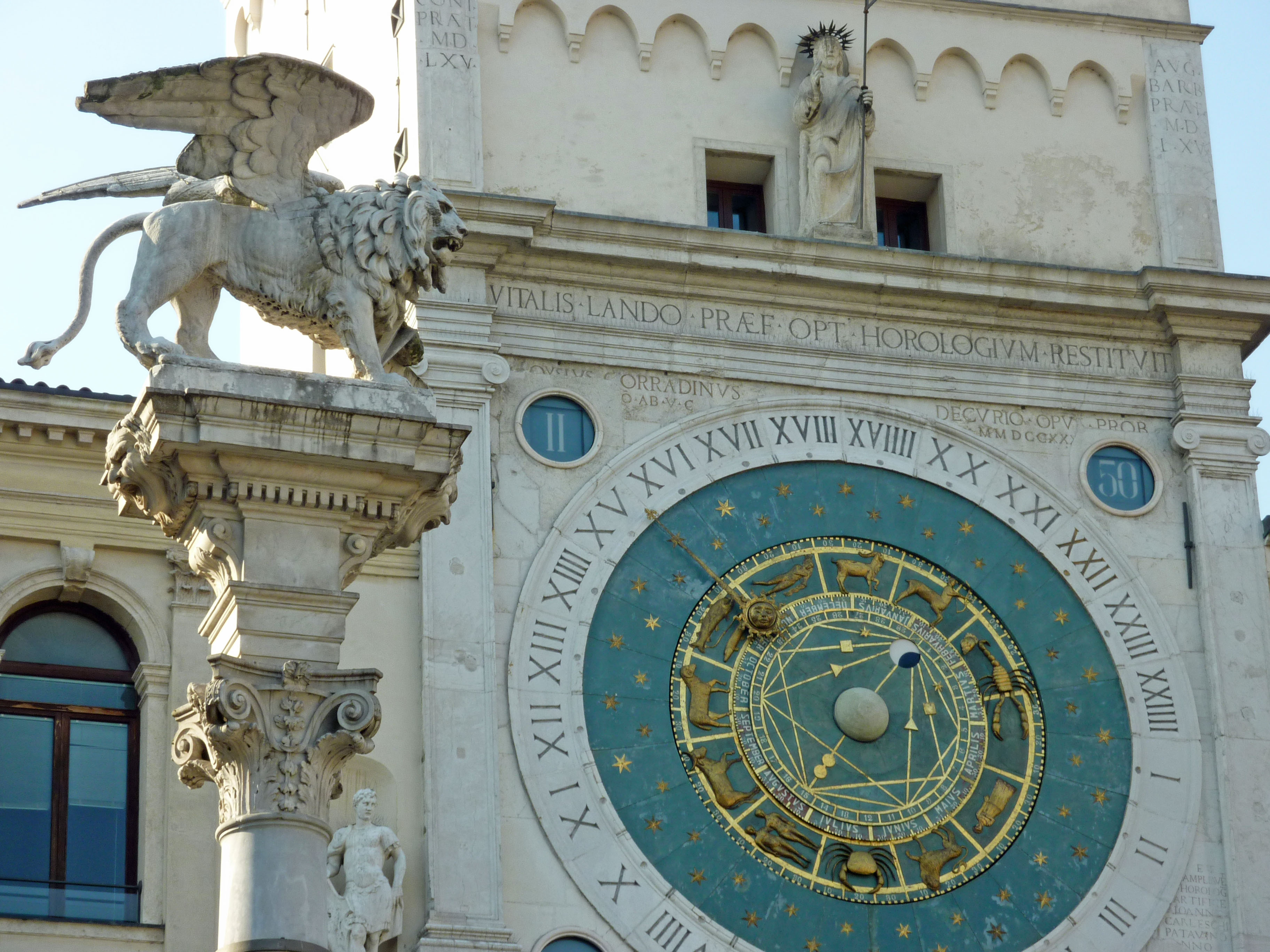 I had the pleasure of attending the 2011 Carnevale in Venice, Italy in February 2011. I arrived in-country a few days before the Carnevale started, stayed in Vicenza with a dear friend and took several day trips - the first one was to the city of Padova (Padua); it is quite a cool city - you can see the Venetian influences. It is also a university town and you can see the handiwork of creative students all around. It's really a lovely city to visit and I was lucky enough to hit it on a bright sunny February day. Unfortunately I left my Rough Guide to Italy with my friend and I don't have the names of various buildings, parks, or churches - if you know the names please let me know and I will post it - grazie!